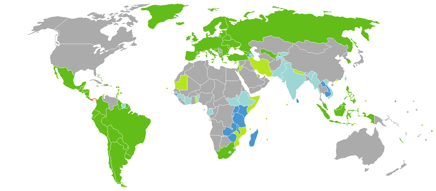 Visa requirements for Panamanian citizens Panama Visa free access Visa on arrival Visa on arrival or eVisa eVisa Visa required